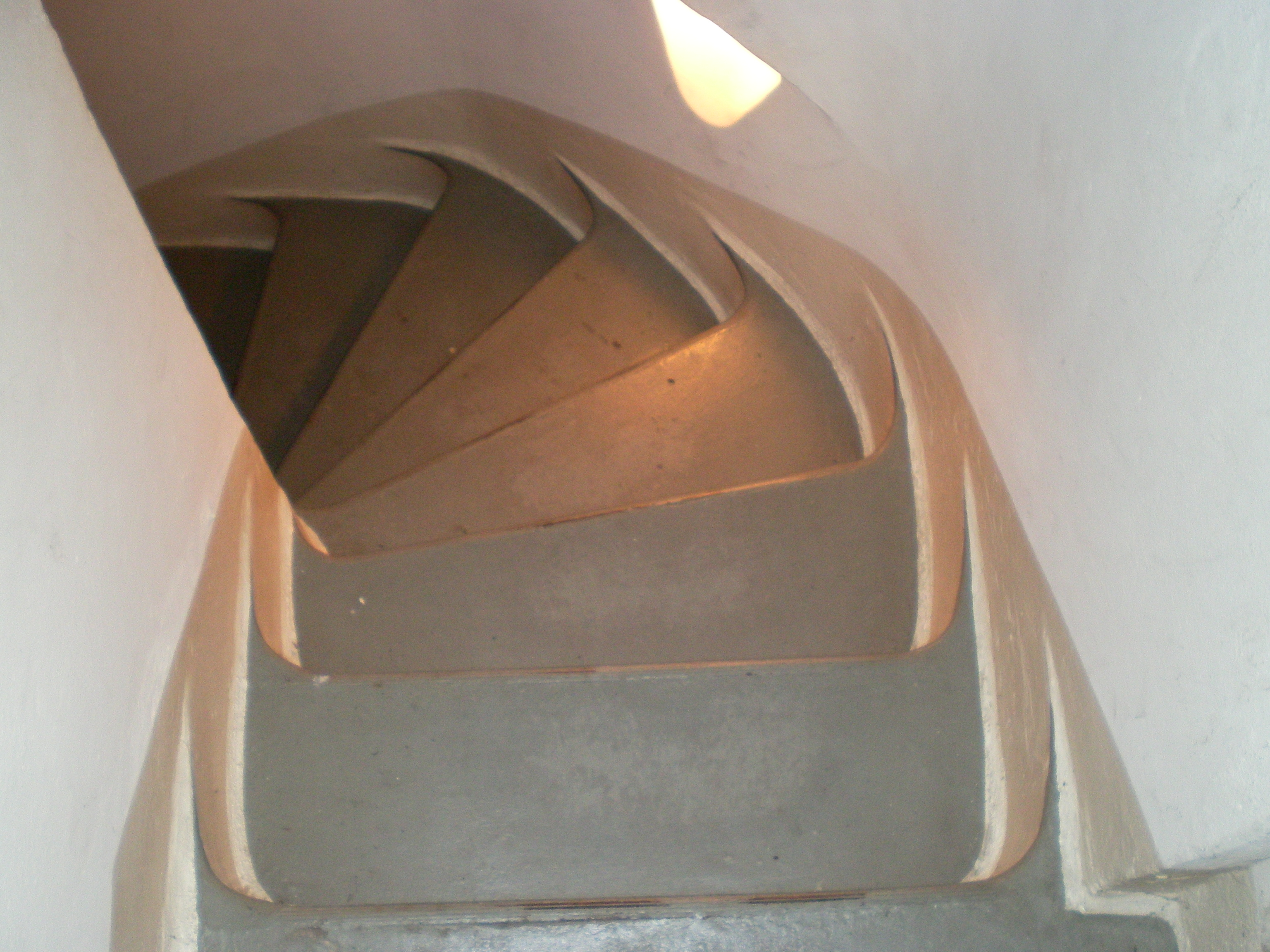 Stairway of the Einsteinturm in the Astronomical Institute Potsdam. Notice the unique architecture.